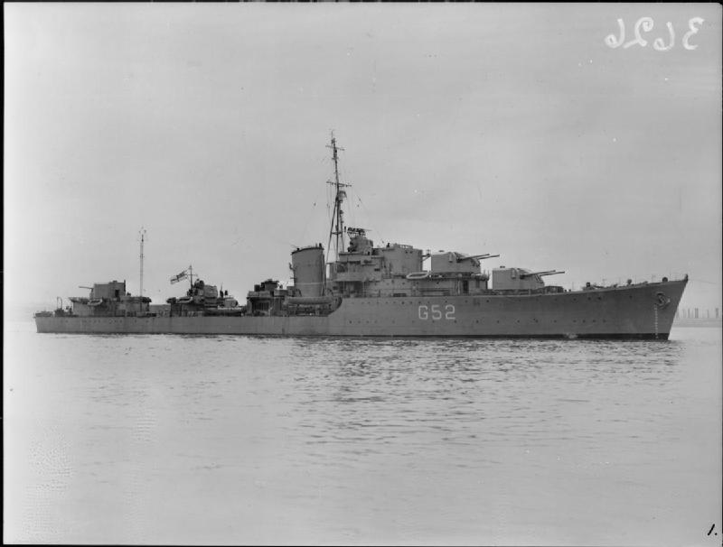 HMS Matchless Underway.